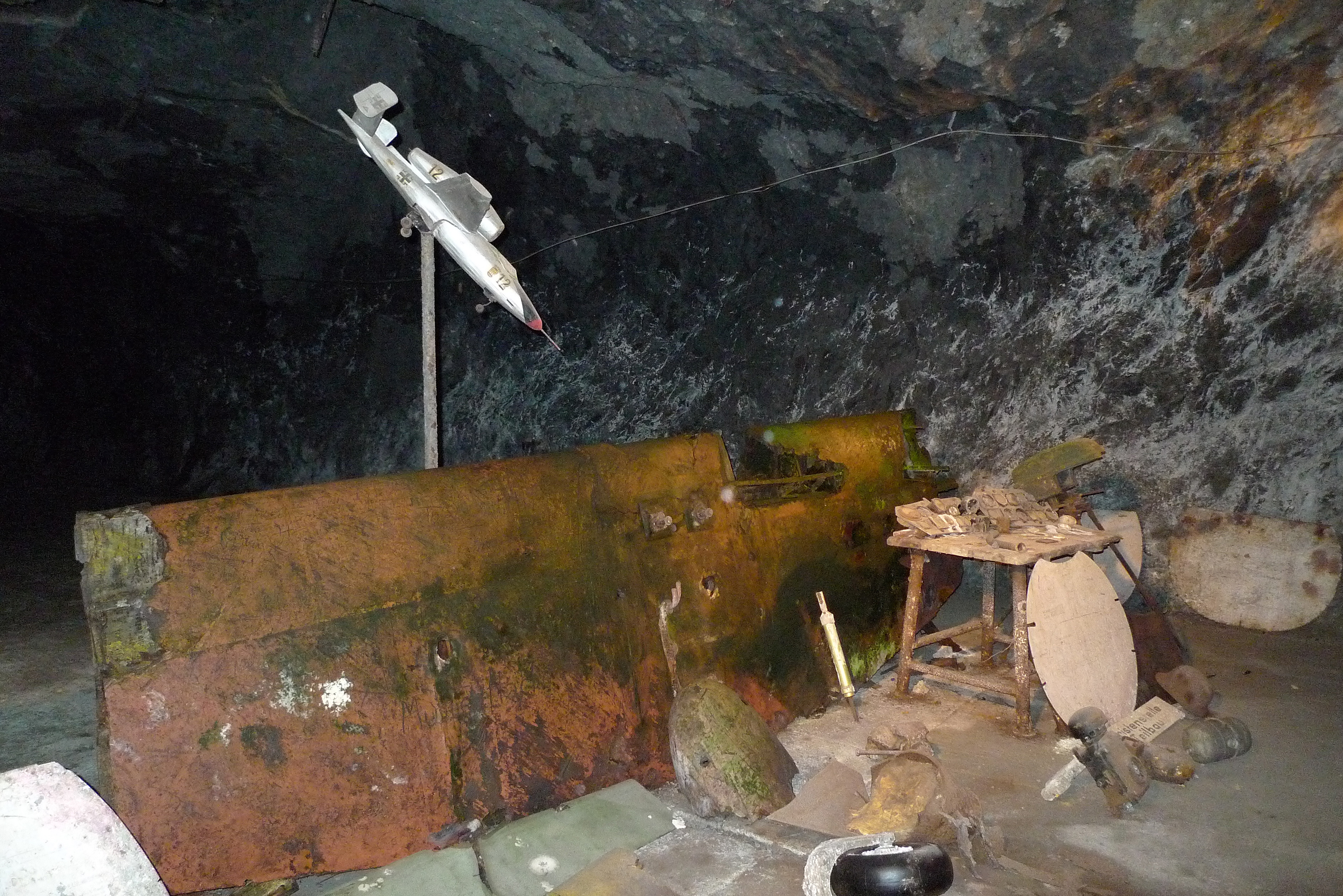 Former mine Seegrotte in Hinterbrühl, Lower Austria - rest of He 162 plane.